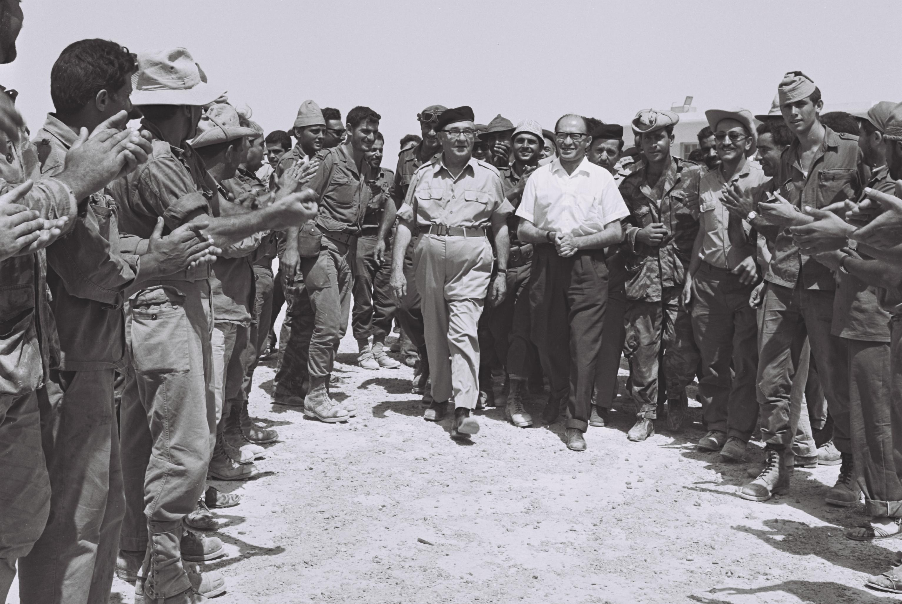 Cheering reserve soldiers greeting p.m. Levi Eshkol (c) and min. Menahem Begin in Sinai.